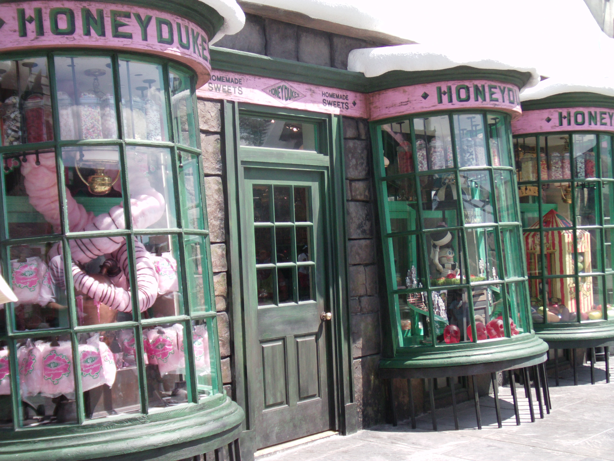 Entrance of Honeydukes candy shop at Islands of Adventure.